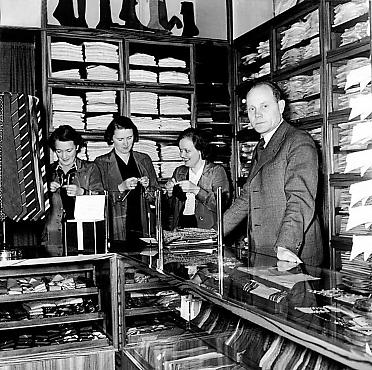 Paavo Nurmi in his men's clothing (haberdashery) store on Mikonkatu 5 in Helsinki in 1939.